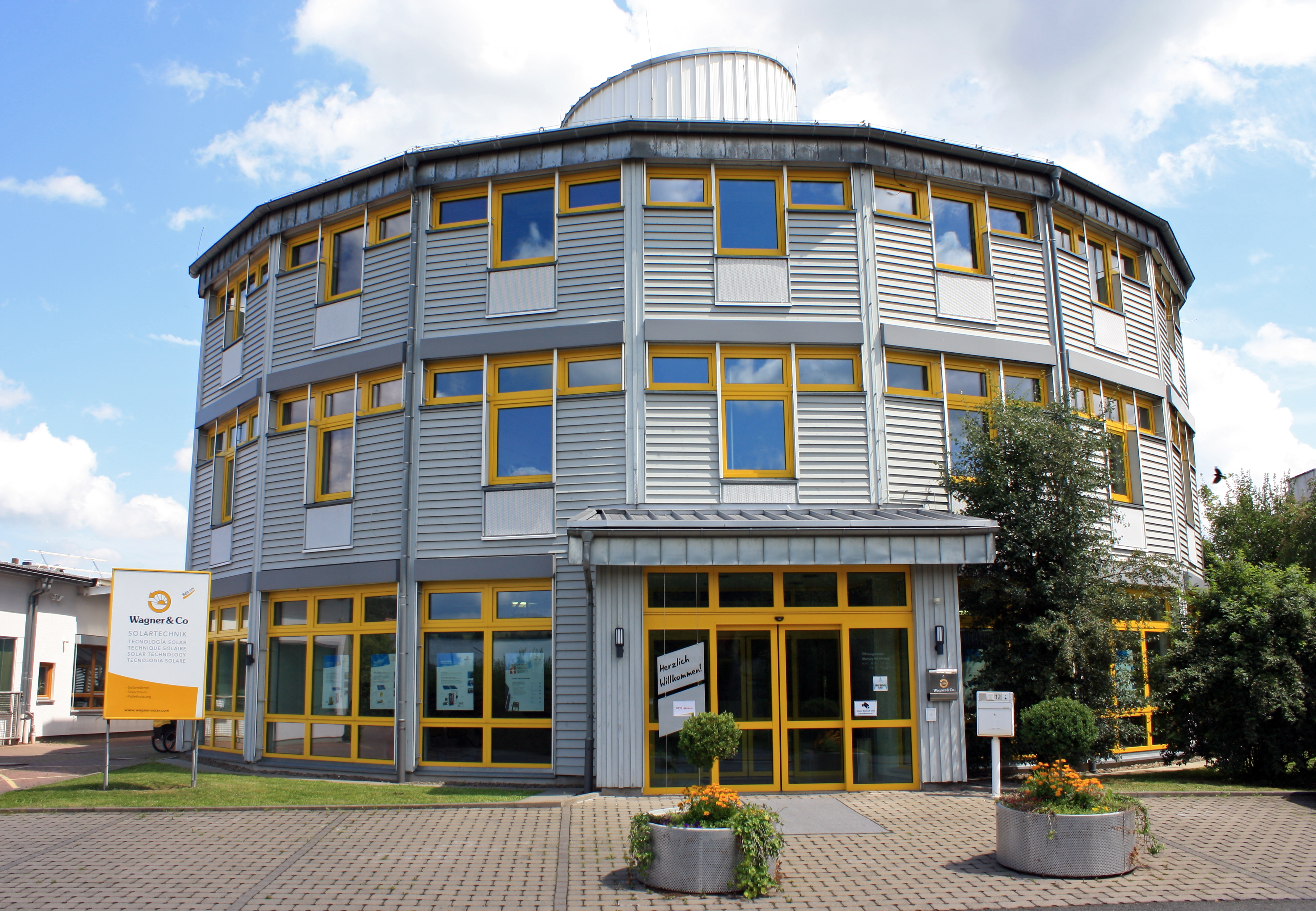 Passive solar building in Cölbe